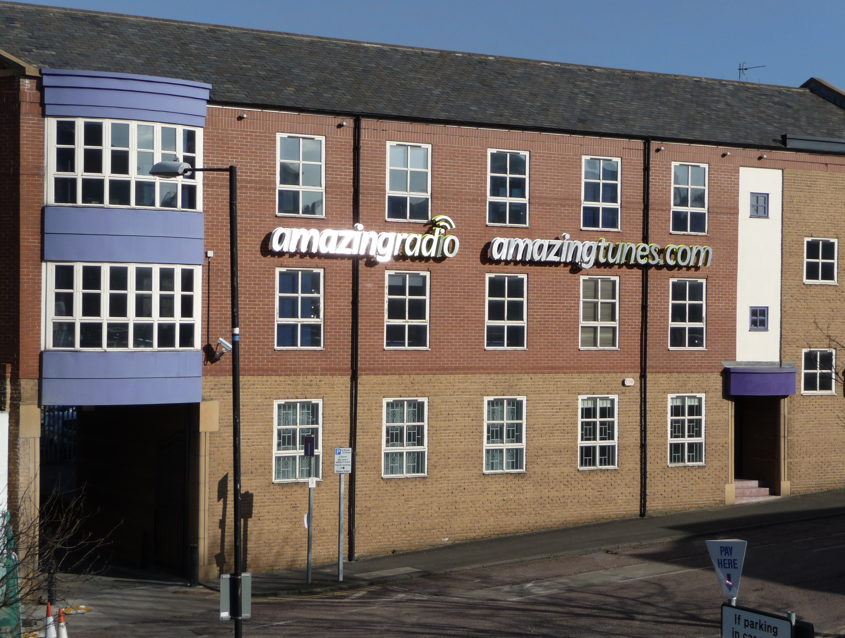 Front elevation of Amazing Towers, Gateshead. Home of Amazing Radio and